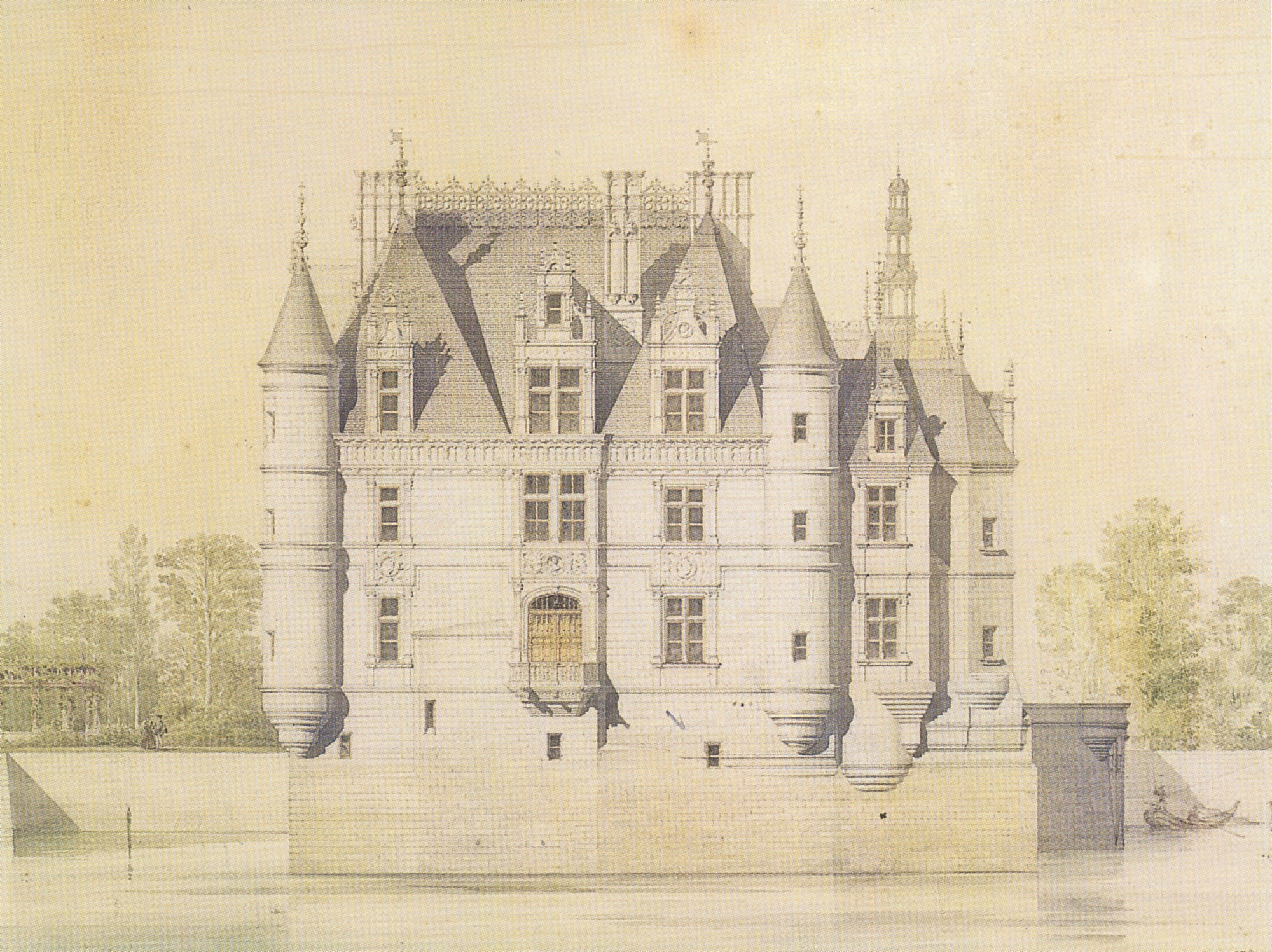 Southern facade of the château de Chenonceau before 1555 without the gallery